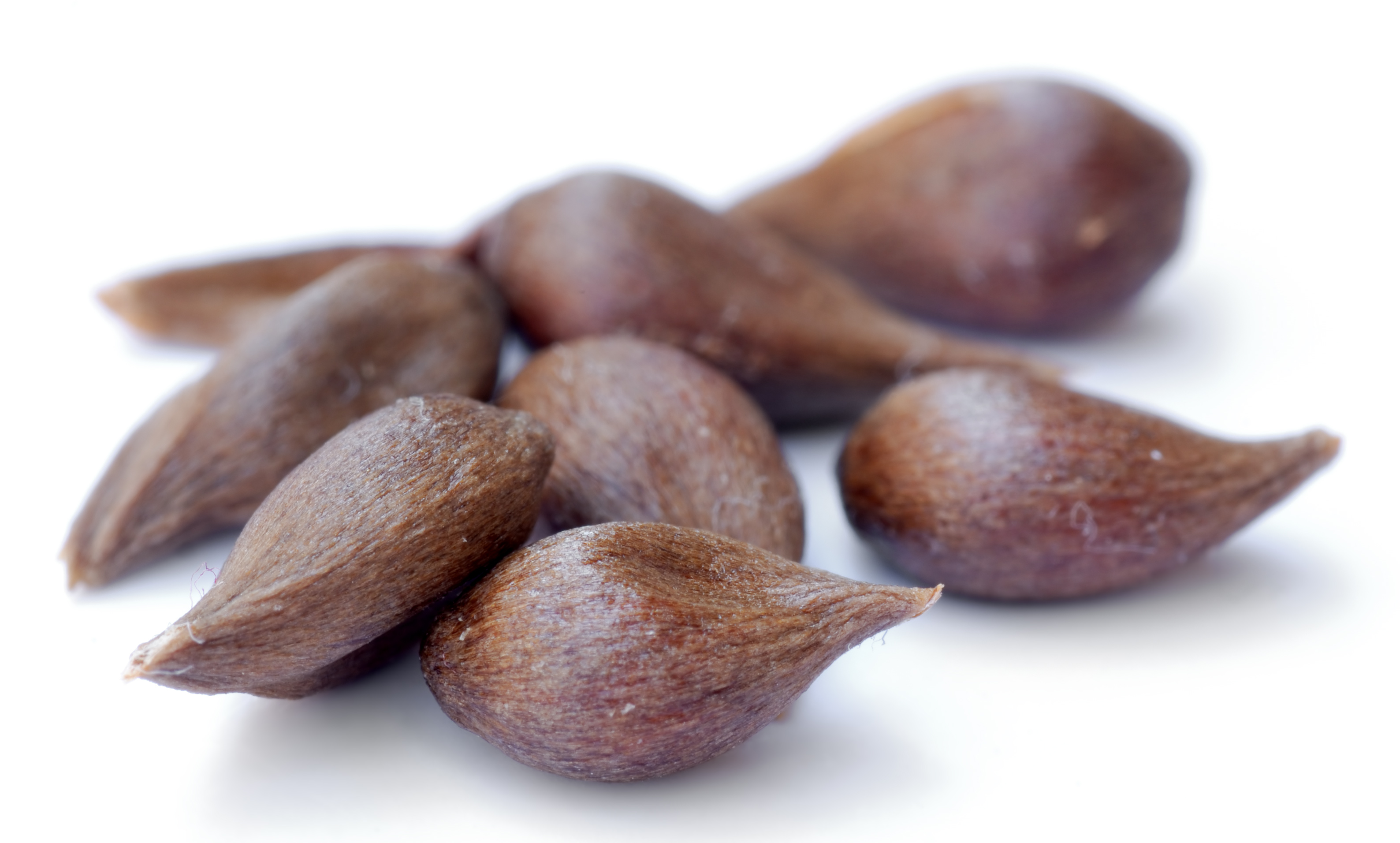 This image shows a few apple seeds of the variety "Prinzenapfel". The length of each seed is about 8.5 mm (0.33 inch). Thanks to Conny the providing the objects and for the assistance during the photo session.